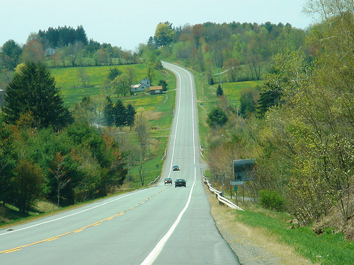 NY 17B in western Sullivan County, NY, USA